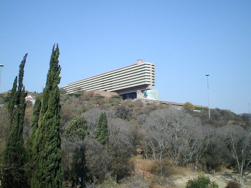 University of South Africa, Pretoria.